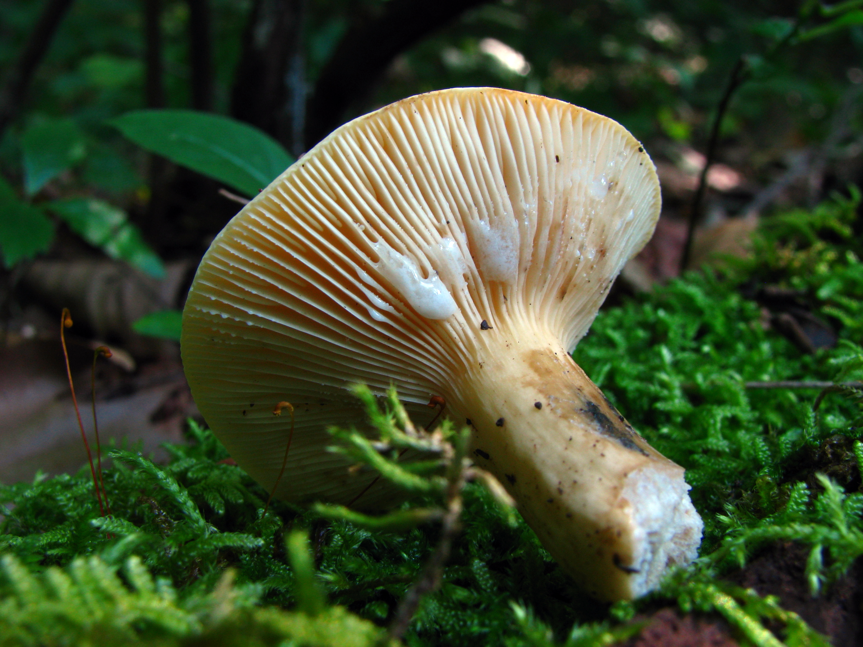 Lactarius luteolus Location: Strouds Run State Park, Athens, Ohio, USA For more information about this, see the observation page at Mushroom Observer.